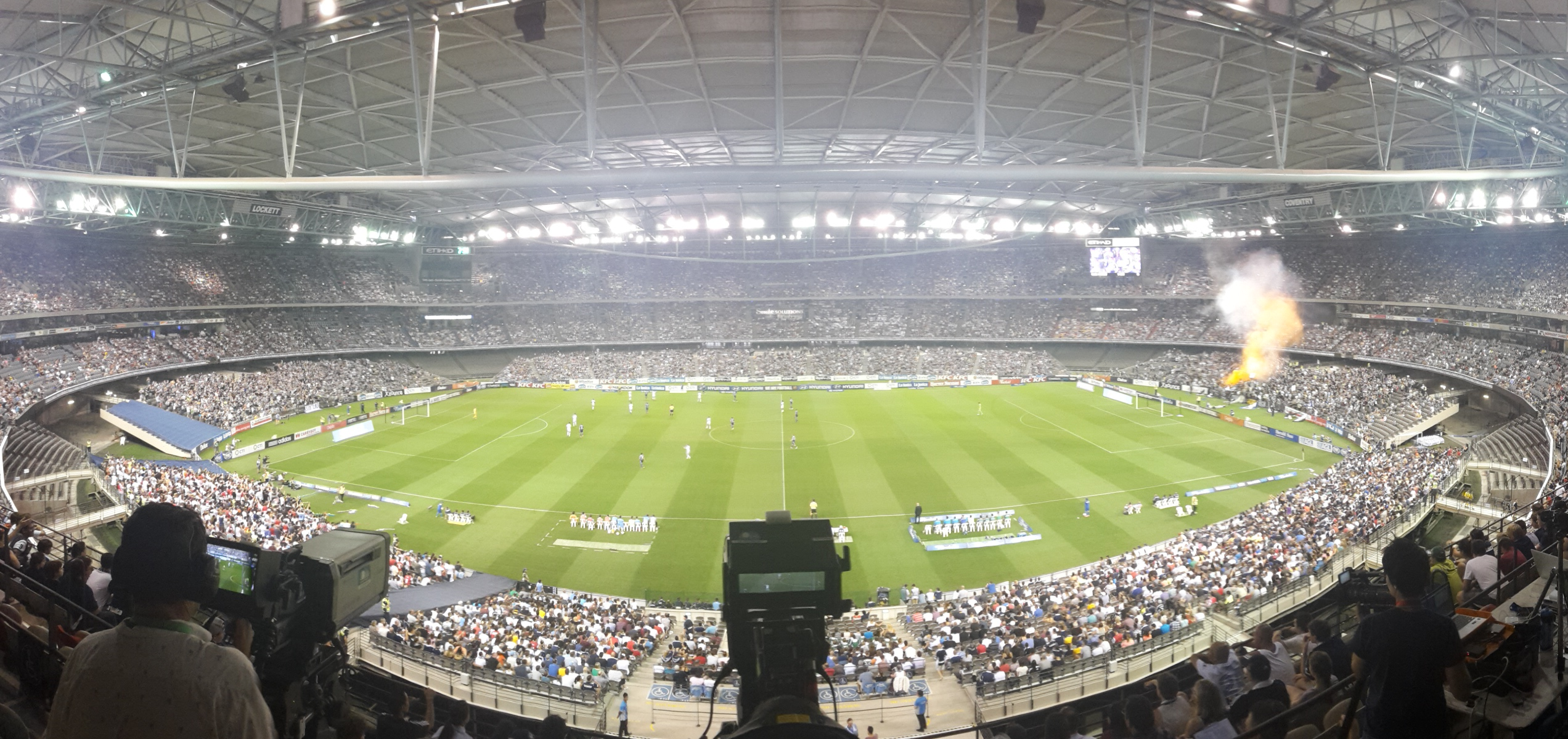 A view from the TV camera position of Docklands Stadium in rectangular configuration during an A-League Melbourne Derby in February 2015.